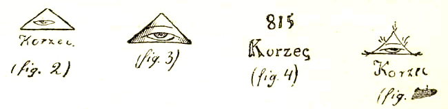 Porcelain marks from the city of Korets (Polish: Korzec, Ukrainian: Корець)